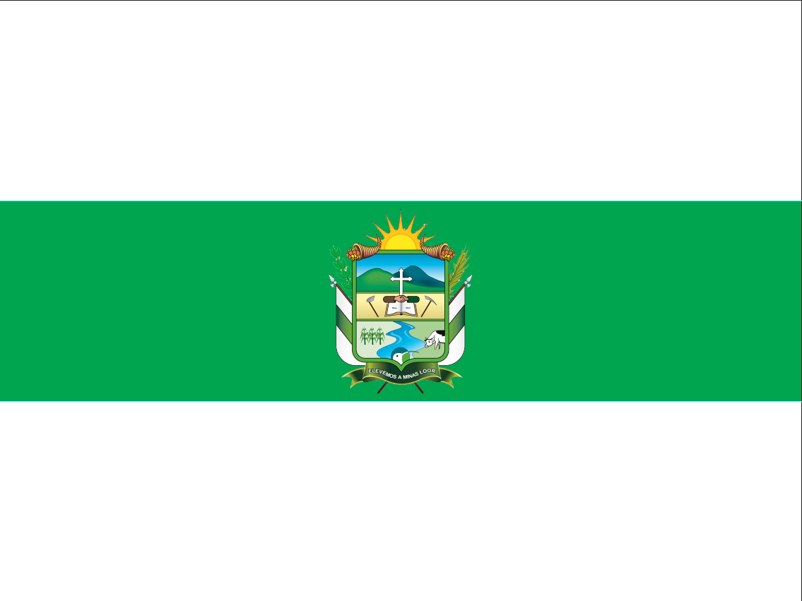 Colores Blanco, Verde, Blanco